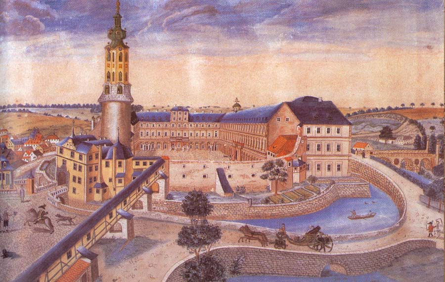 Painting of the Wilhelmsburg Palace in Weimar